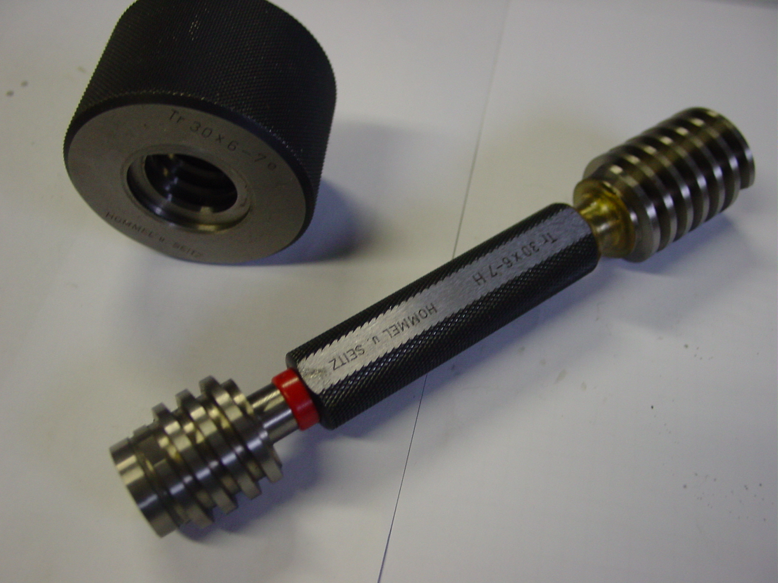 plug thread gauge Tr30x6-7H and NOT GO ring gauge Tr30x6-7e